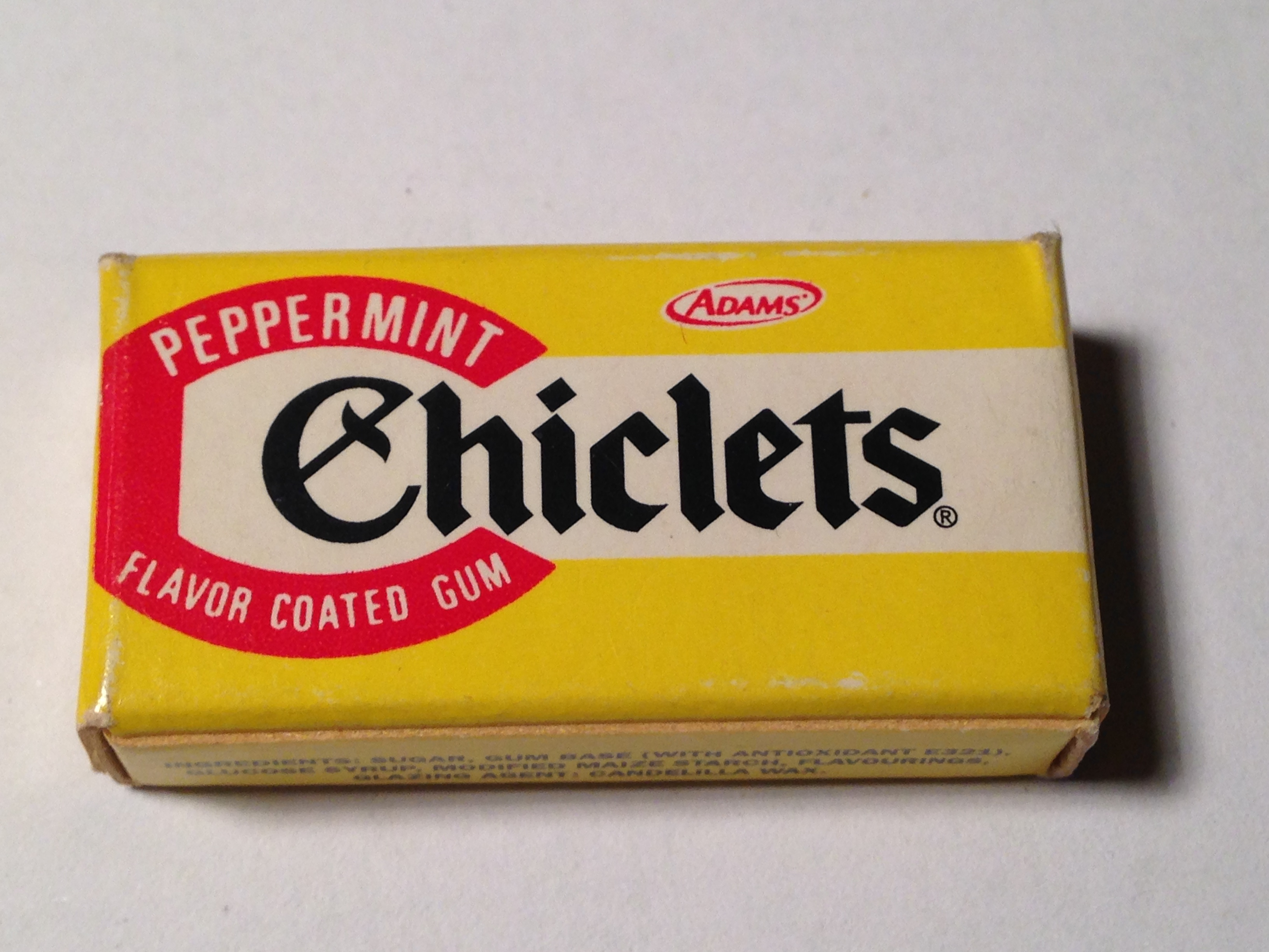 Promotional pack